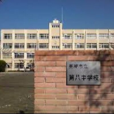 Central gate of Takatsuki municipal 8th junior high school